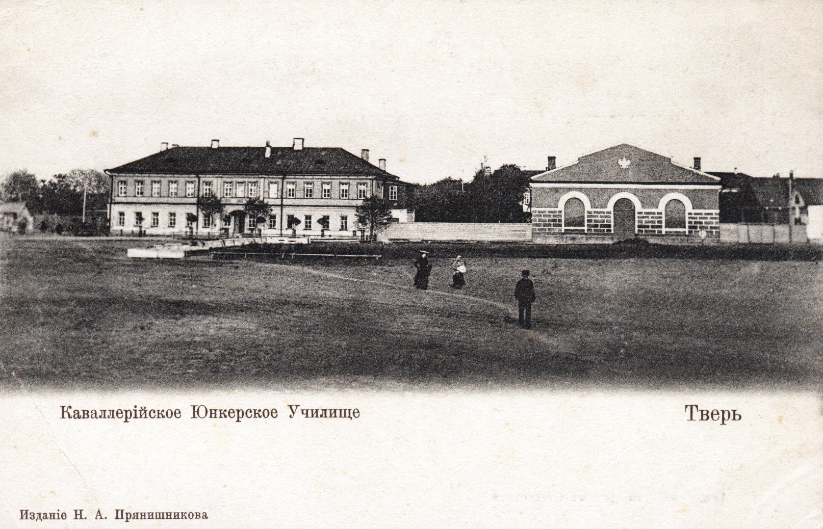 The Tver cavalry school. Apartment of the chief (at the left), an arena (on the right) and a parade-ground (in front)